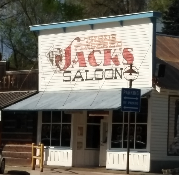 Three Fingered Jack's Saloon in Winthrop, Washington, is the oldest legal saloon in the state.